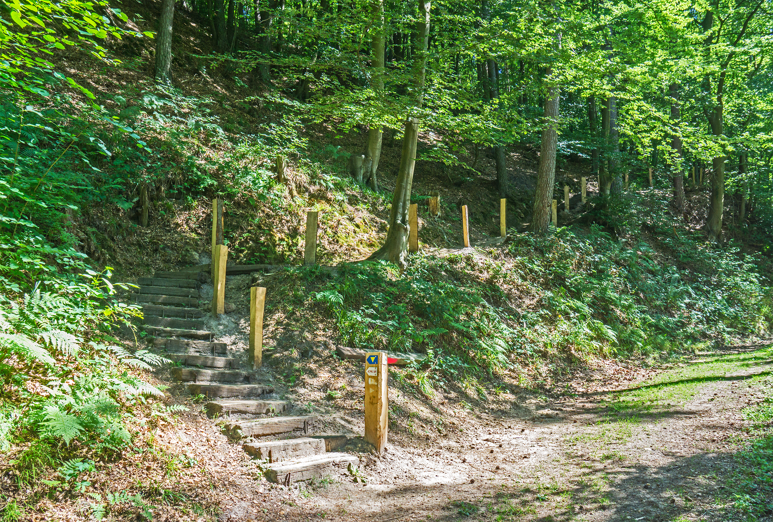 Last steps to Fautelfiels